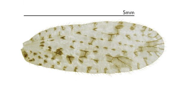 Forewing of Micromus variegatus (Fabricius), based on a specimen captured in Québec.